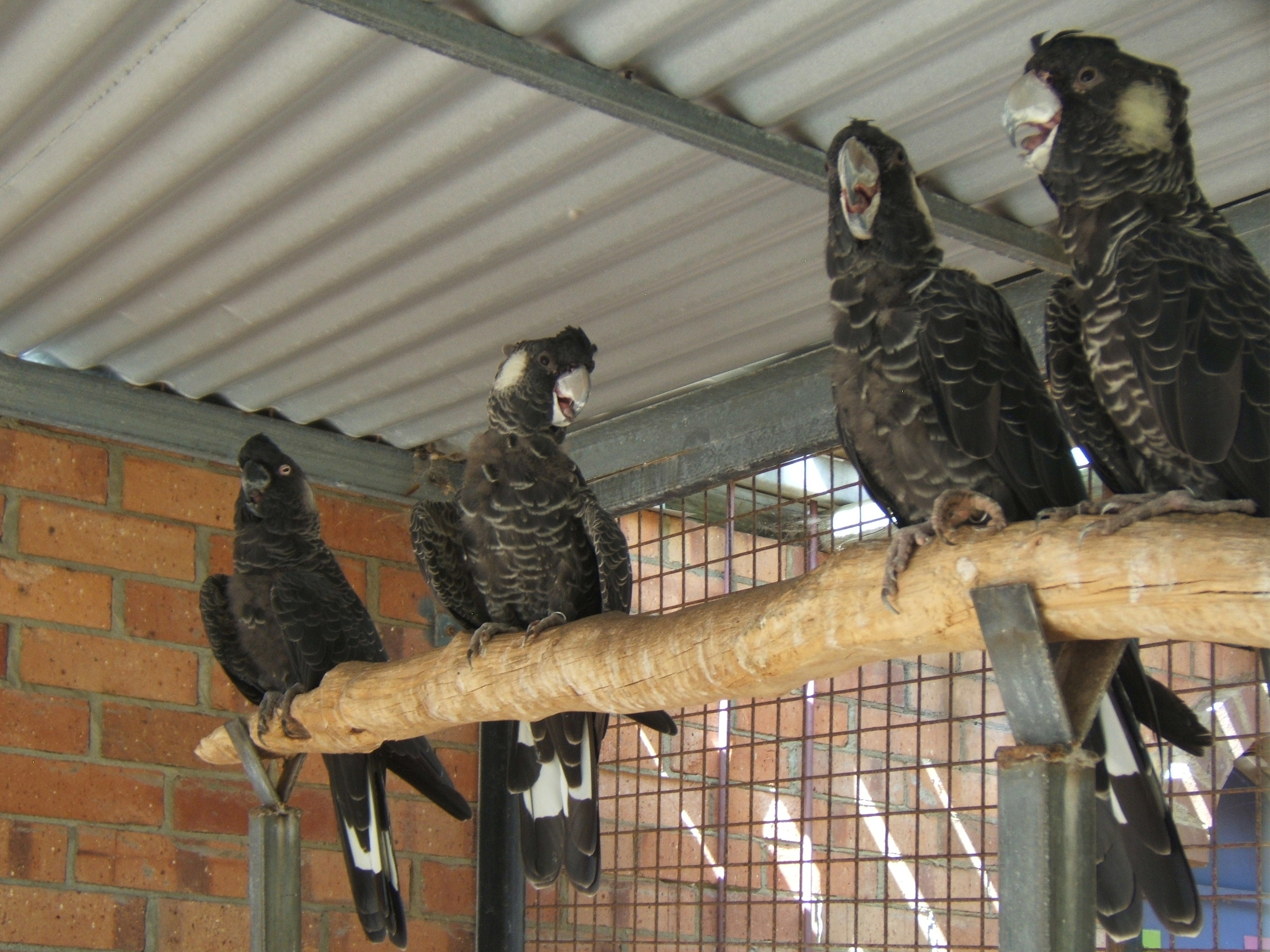 Short-billed Black Cockatoos (also known as Carnaby's Black Cockatoo) at Rainbow Jungle (The Australian Parrot Breeding Centre), Kalbarri, Western Australia.